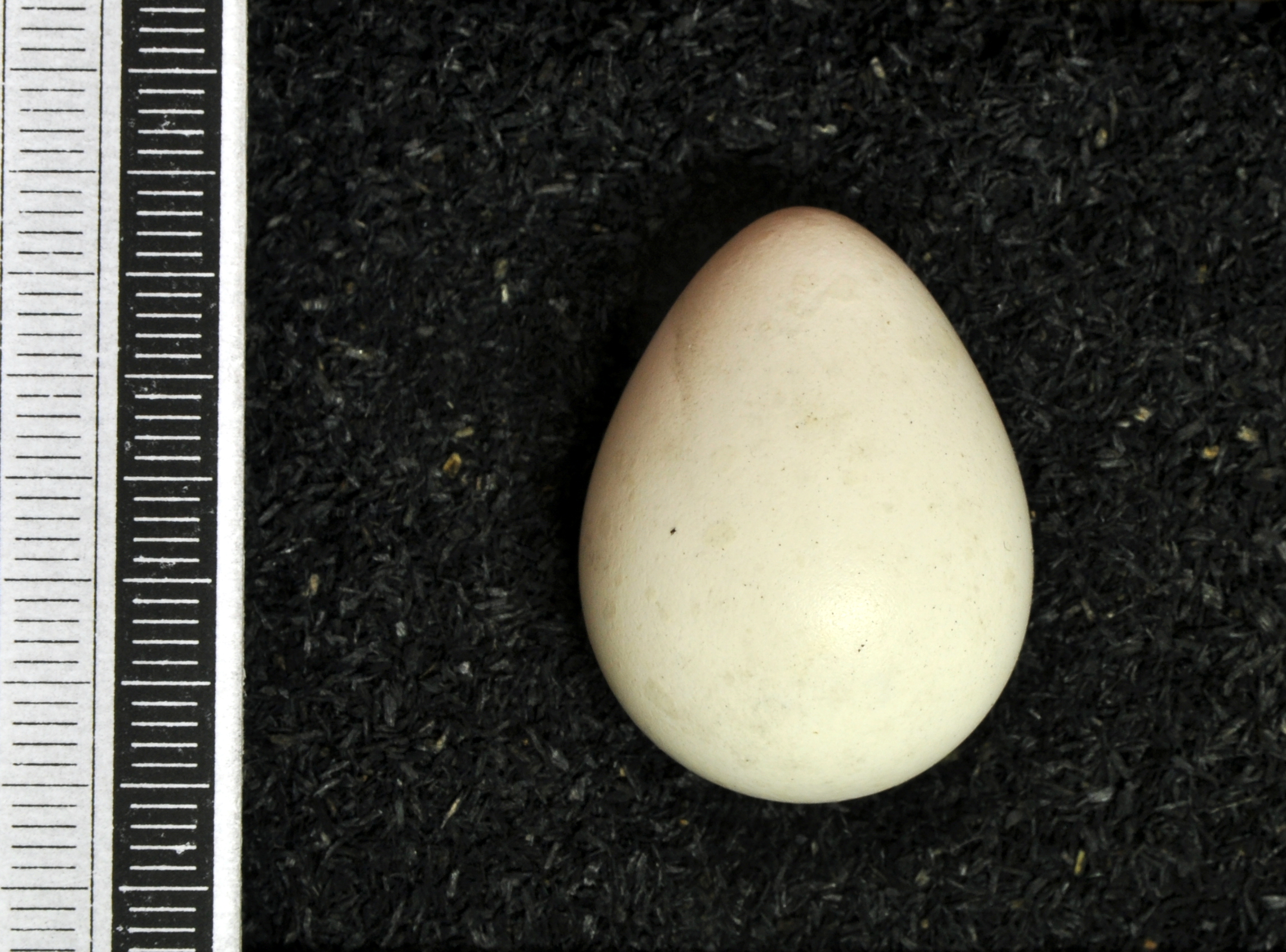 Mourning dove Zenaida macroura , egg, Coll. Museum Wiesbaden